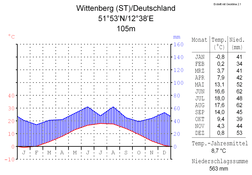 climate chart in the format by Walter and Lieth, metric, °Celsisus and millimeters, made with Geoklima 2.1